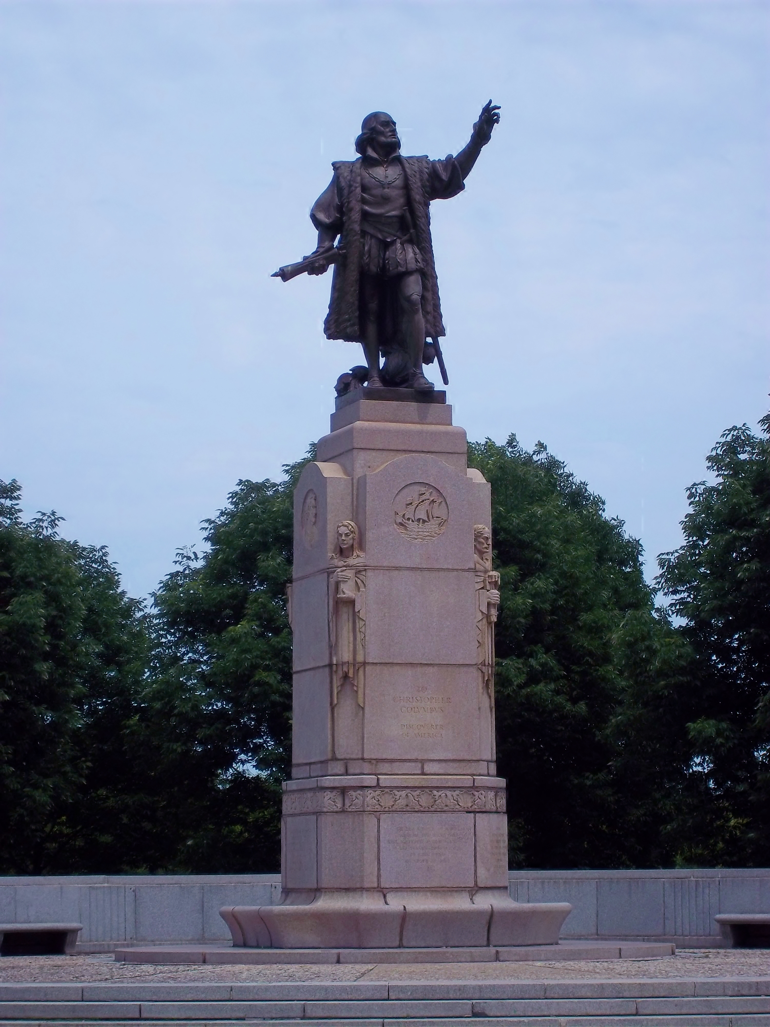 Statue of "Christopher Columbus" first displayed-published 1933. Grant Park, Chicago.